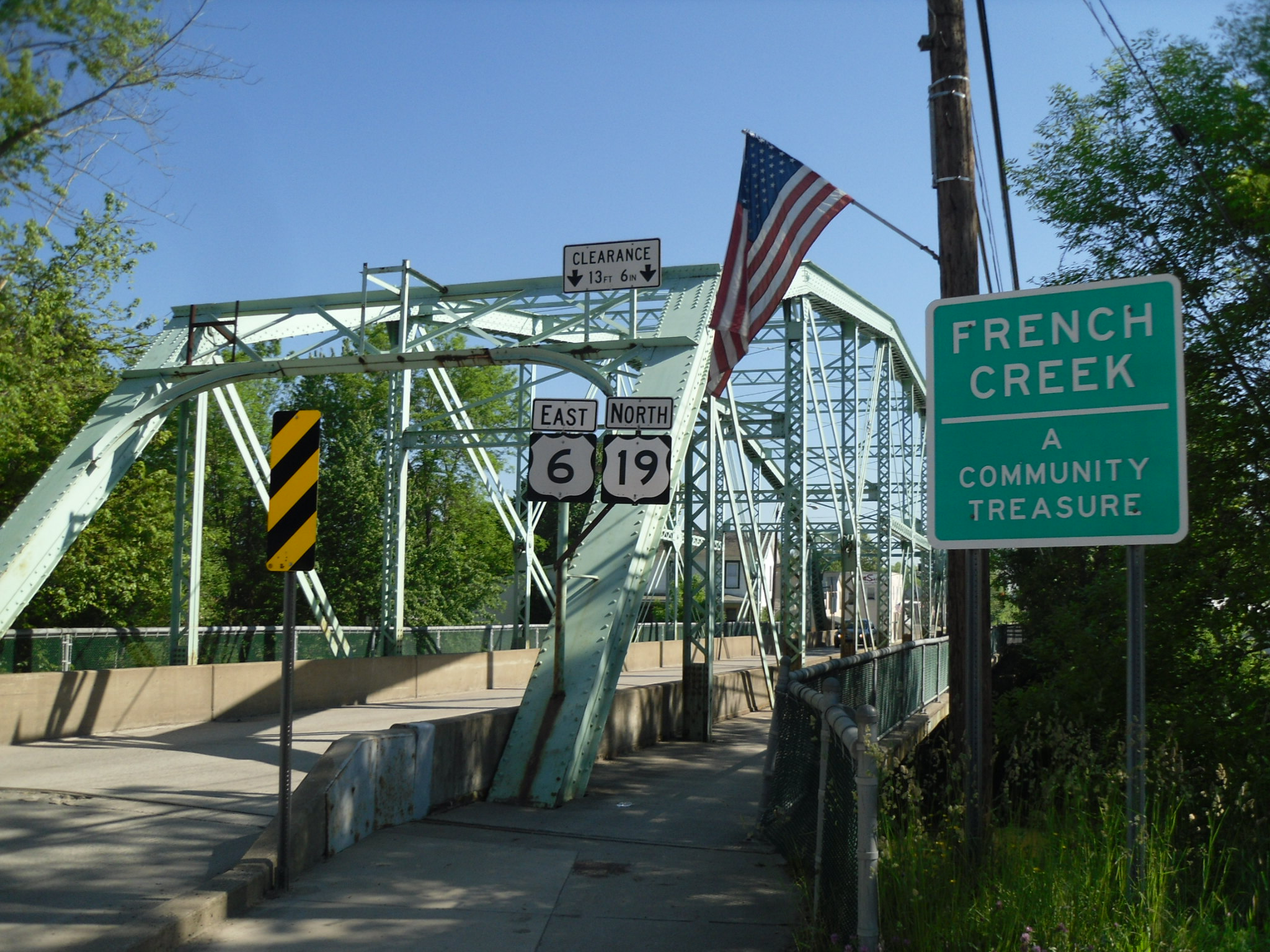 French Creek (Allegheny River) US Route 19 - Pennsylvania